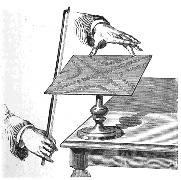 Drawing showing how vibrations are excited in a Chladni plate with a violin bow to create the sand figures of nodal lines called Chladni figures, from an 1879 textbook on acoustics. A metal plate vibrating at resonance is divided into separate regions vibrating in opposite directions bounded by lines of zero vibration called nodal lines. A plate can have many different vibration modes, each with a different pattern of nodal lines. German physicist and musician Ernst Chladni discovered around 1787 that these nodal lines could be made visible by sprinkling sand on a metal plate and exciting vibrations in it by drawing a violin bow across the edge, as shown. The sand collects along the nodal lines where the surface is stationary; the resulting patterns are called Chladni figures. One is visible on the surface. The image also illustrates how different vibrational modes can be excited by touching the plate in different places with the free hand while bowing. Alterations to image: none.